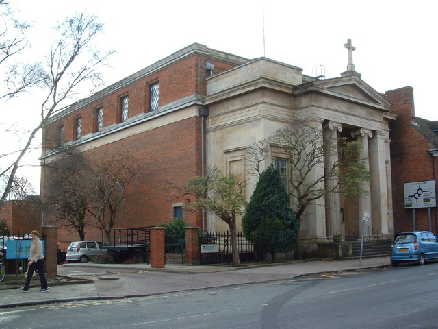 Roman Catholic Church of St Edmund, Westgate Street, Bury St Edmunds, Suffolk, seen form the northeast